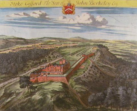 Stoke Park, Stoke Gifford, Gloucestershire, by Johannes Kip(1653 - 1722), published in "Britannia Illustrata: Or Views of Several of the Queen's Palaces, also of the Principal seats of the Nobility and Gentry of Great Britain, Curiously Engraven on 80 Copper Plates", London, first published 1707, this version from the 1724 edition. Copper engraving with later hand colouring. Engraved size : 430mm.x 345mm. including title above.